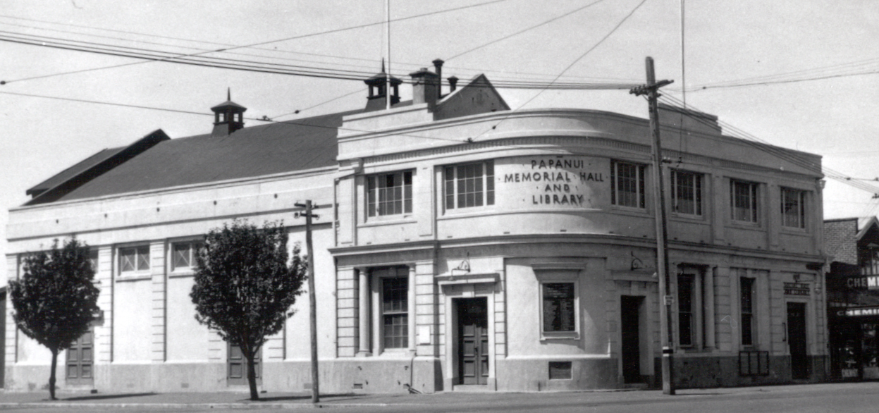 Papanui Memorial Hall and Library circa 1930's